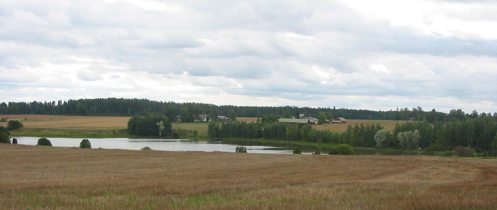 Lake Pitkäjärvi, Somero, Finland, seen from north. The houses by the lake are on the medieval village site of Pitkäjärvi.